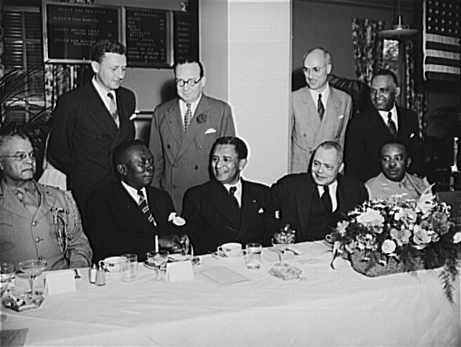 Luncheon for Liberian president's party. His Excellency, Edwin Barclay, President of the Republic of Liberia, was feted by Negro civic, social, professional and educational leaders Saturday, May 29, 1943 at a luncheon at the Lucy Diggs Slowe Hall in Washington, D.C. Shown at the president's table (seated, left to right) are: Brigadier General Benjamin O. Davis, U.S. Army military aide to President Barclay; W.V.S. Tubman, President-elect of Liberia; President Barclay; Dr. Emmet J. Scott, Chairman of the Committee on Invitation; and Captain Alford Russ, chief of the Liberian frontier force. Standing (left to right) are Stanley Woodward, Frederick Hibbard and Henry S. Villard, State Department; and Walter F. Walker, Liberian Consul General at New York.